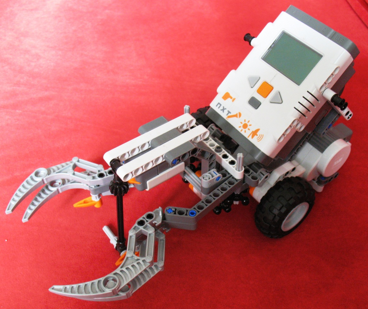 Lego NXT in a common configuration